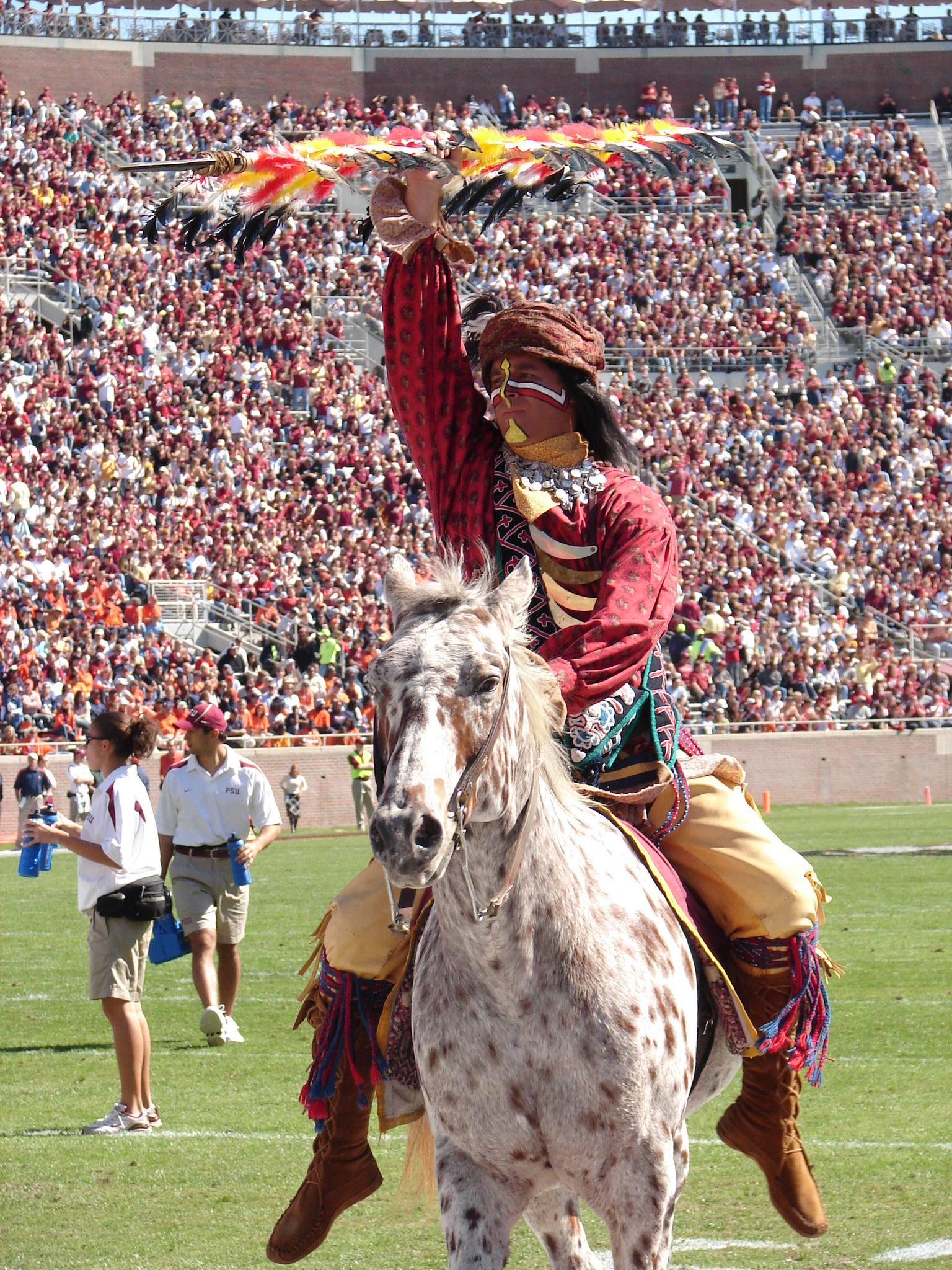 Chief Osceola and Renegade, mascot for Florida State University